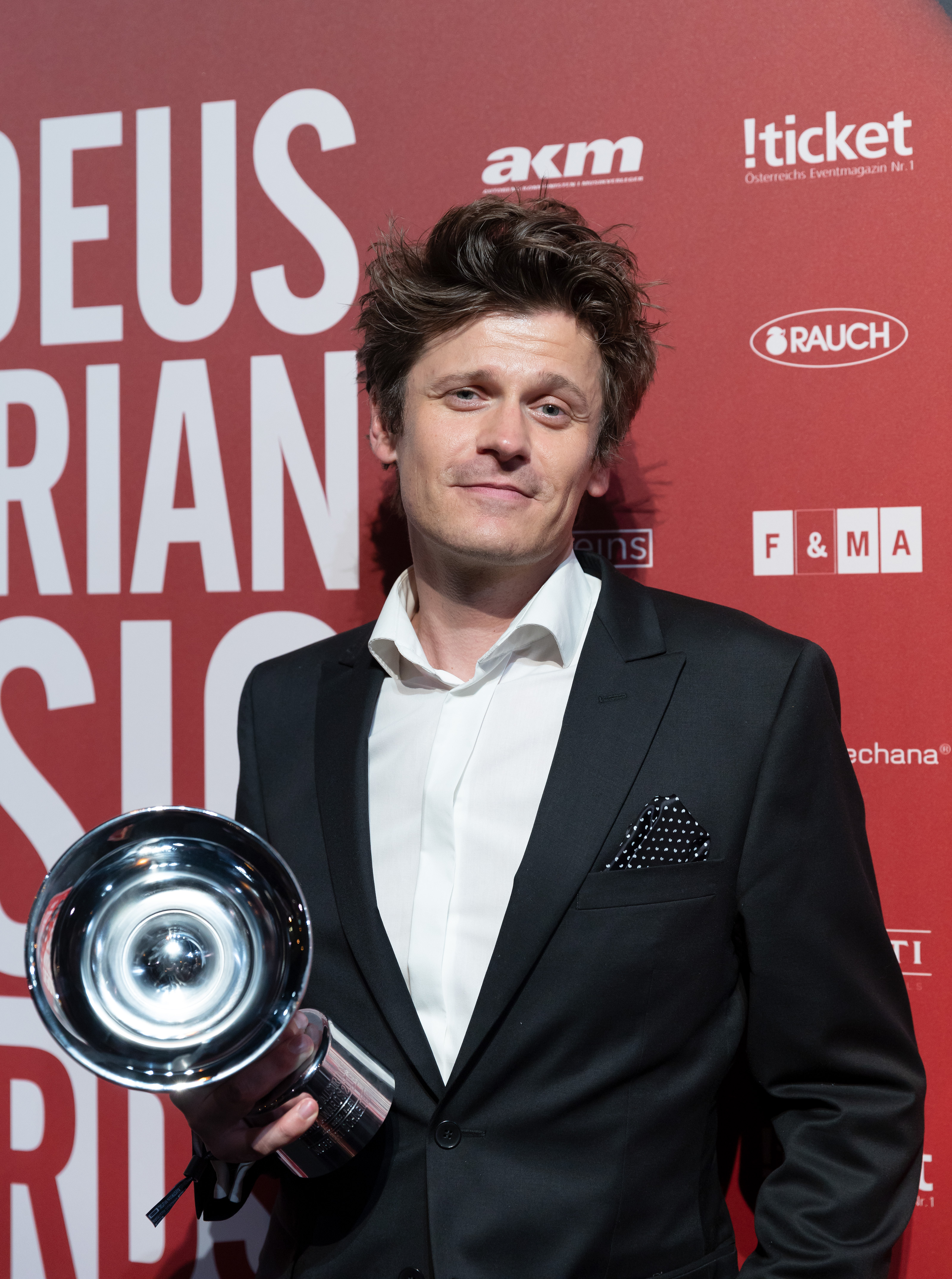 Norbert Schneider at the Amadeus Austrian Music Award 2019 at Volkstheater in Vienna.